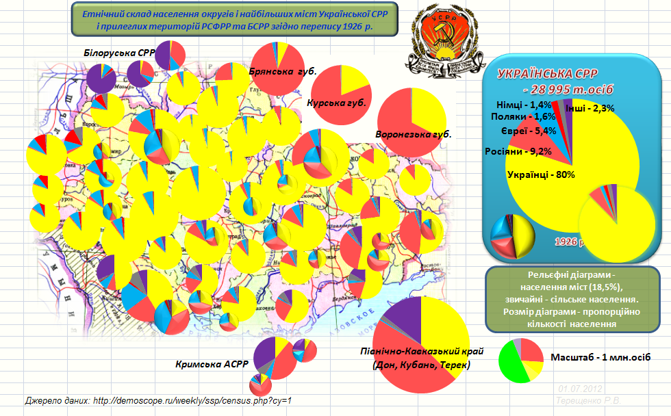 The population of USSR in 1926